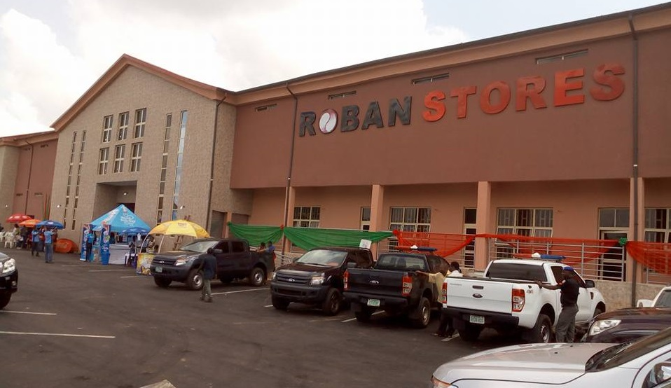 Roban Stores supermart in Awka